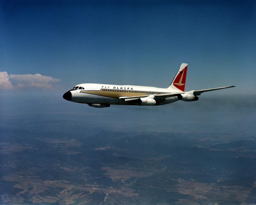 Convair 880-61 Alaska AL in flight 1961